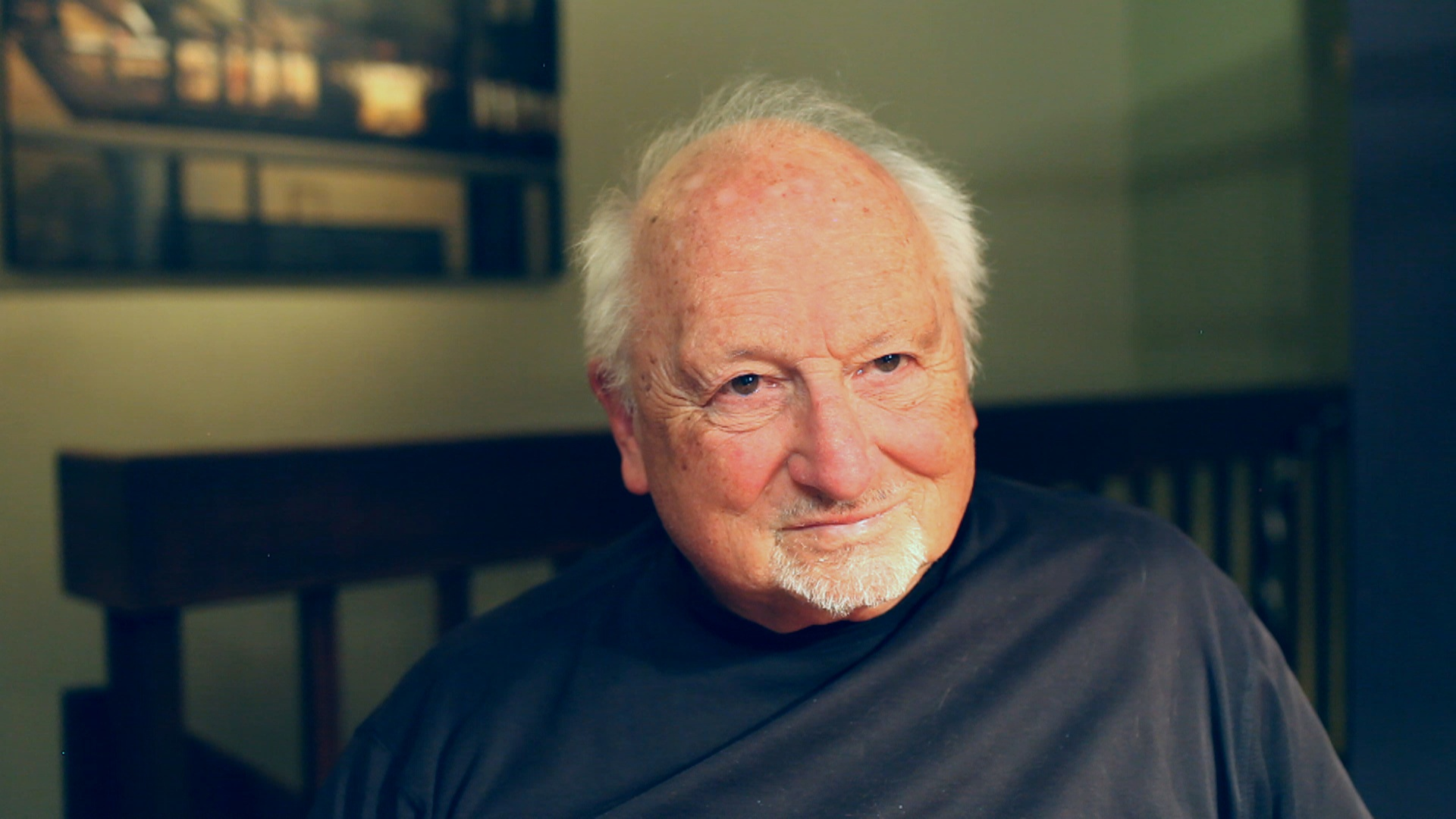 Chuck Peddle, 6502 Designer